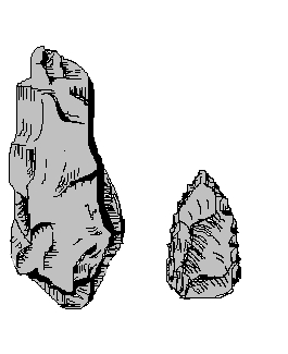 Picture of tools of Homo sapiens neanderthalensis from Azykh (Azokh) cave (Hadrut district, Republic of Mountainous Karabakh / Khojavend district, Azerbaijan)